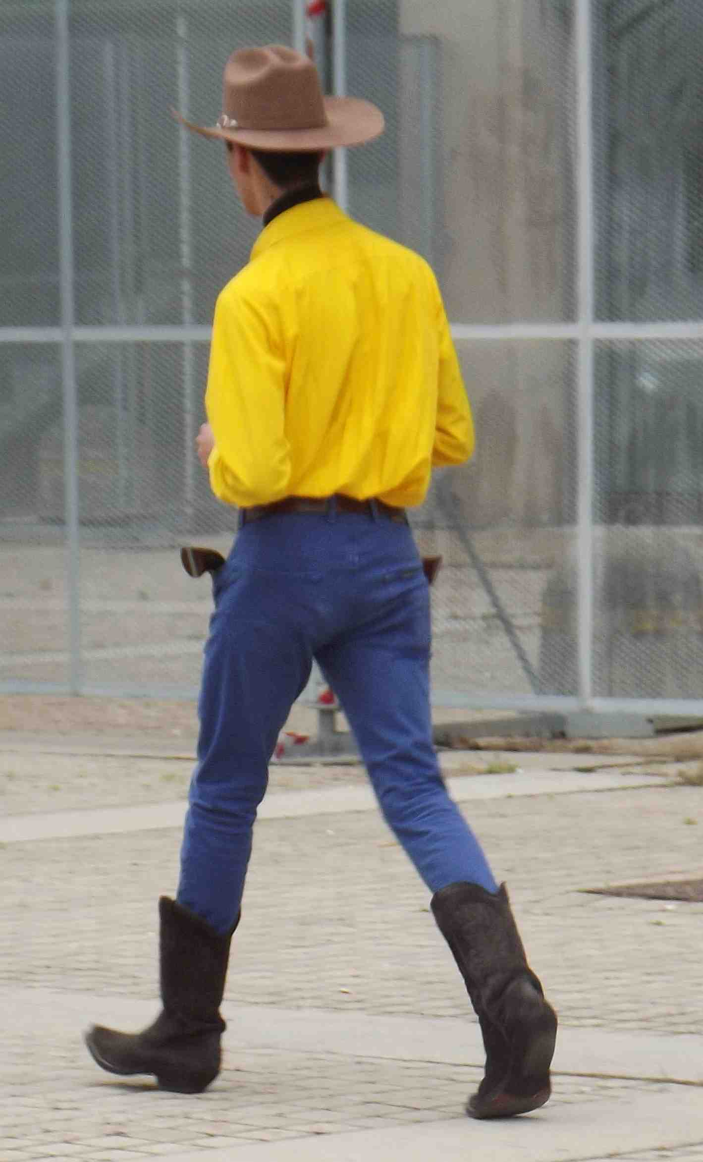 Torino Comics 2014 edition: a cosplayer performing Tex Willer walking towards the entrance